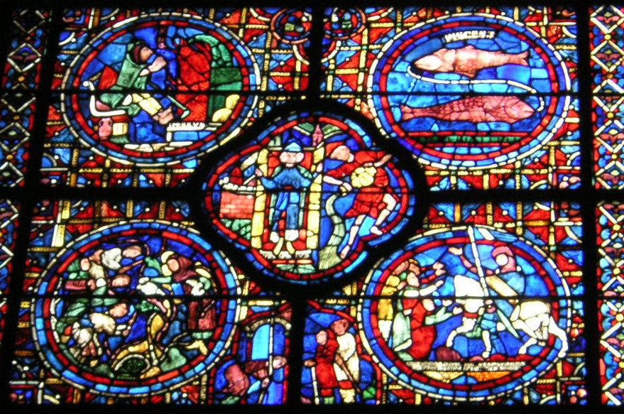 Chartres Cathedral 041 stained glass, window of the Seasons, January and February.